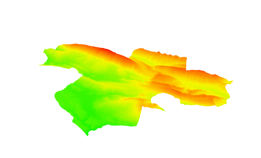 Dem of choram county,3D